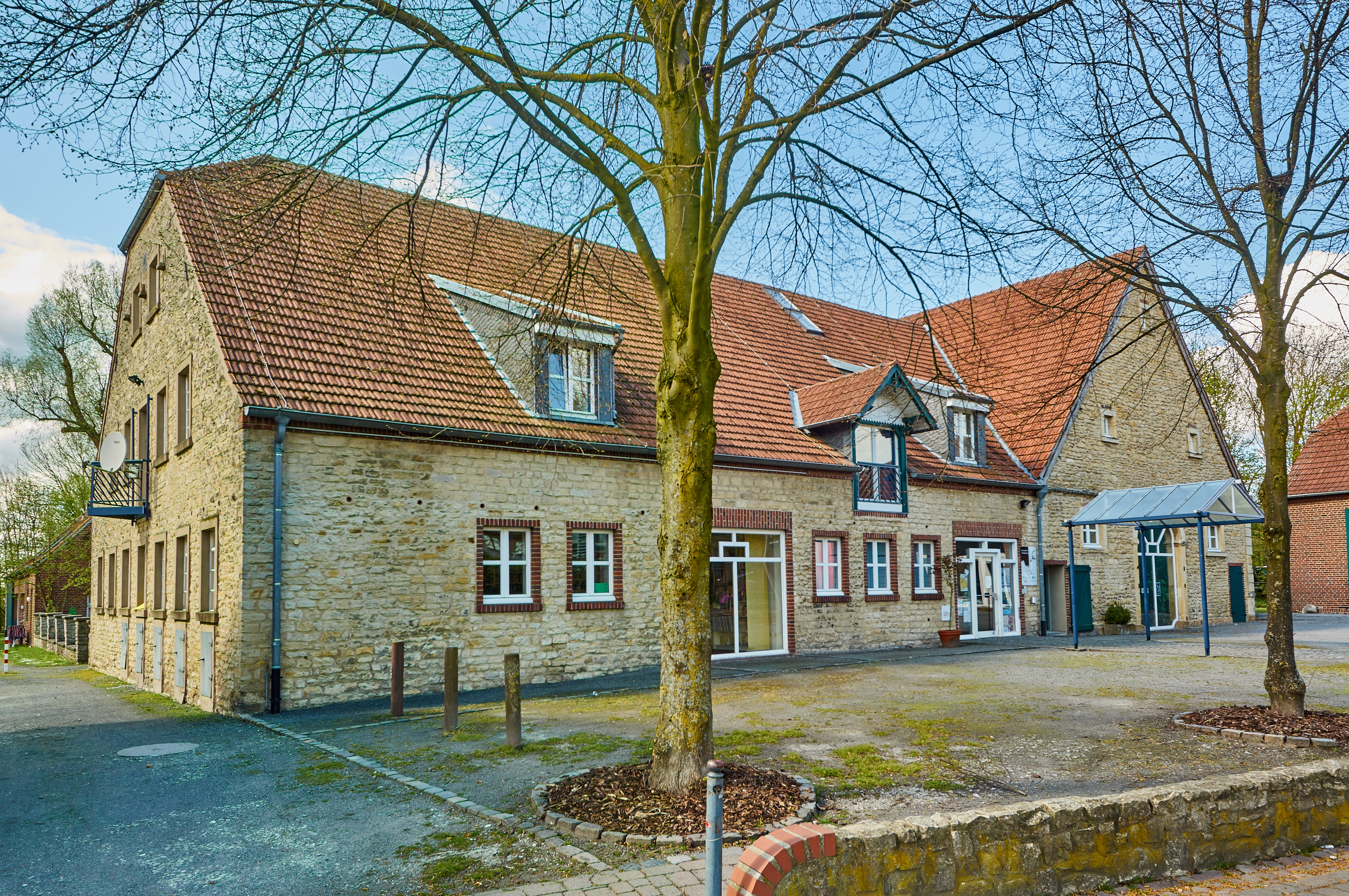 Hof der Literaten in Schöppingen, North Rhine-Westphalia, Germany. This is a photograph of an architectural monument.